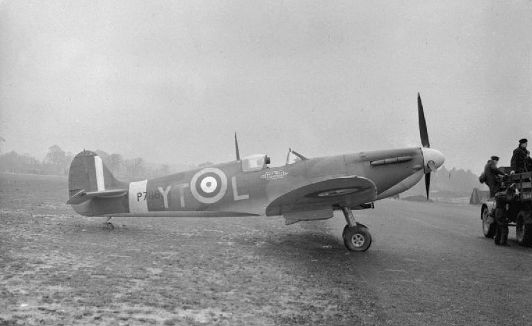 A Spitfire Mark IIA of No. 65 Squadron RAF parked on the ground at Tangmere, Sussex, 1940